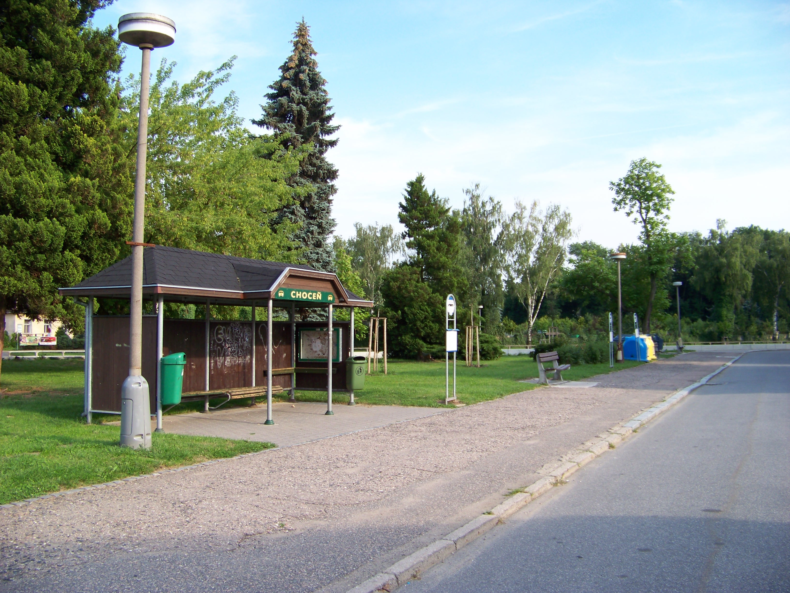 Choceň, Ústí nad Orlicí District, Pardubice Region, the Czech Republic. Na Herzánce street, a bus station.